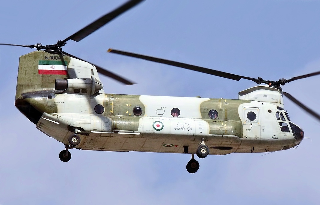 CH-47 Iran Air Force